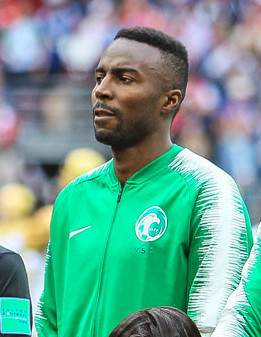 Saudi Arabia national football team